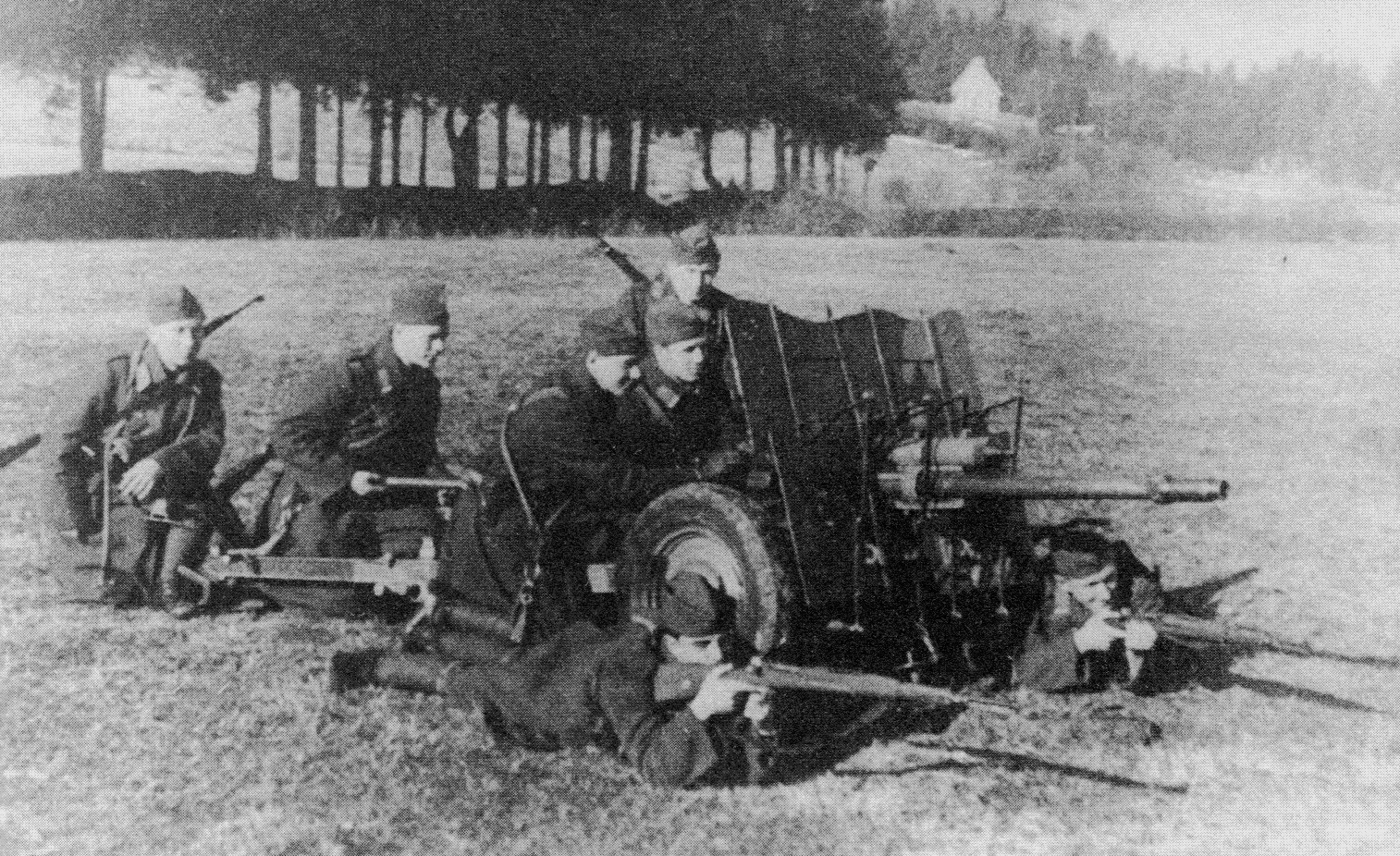 Czechoslovak antitank gun vz. 37